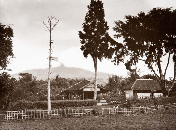 School and town hall, Sukalarang